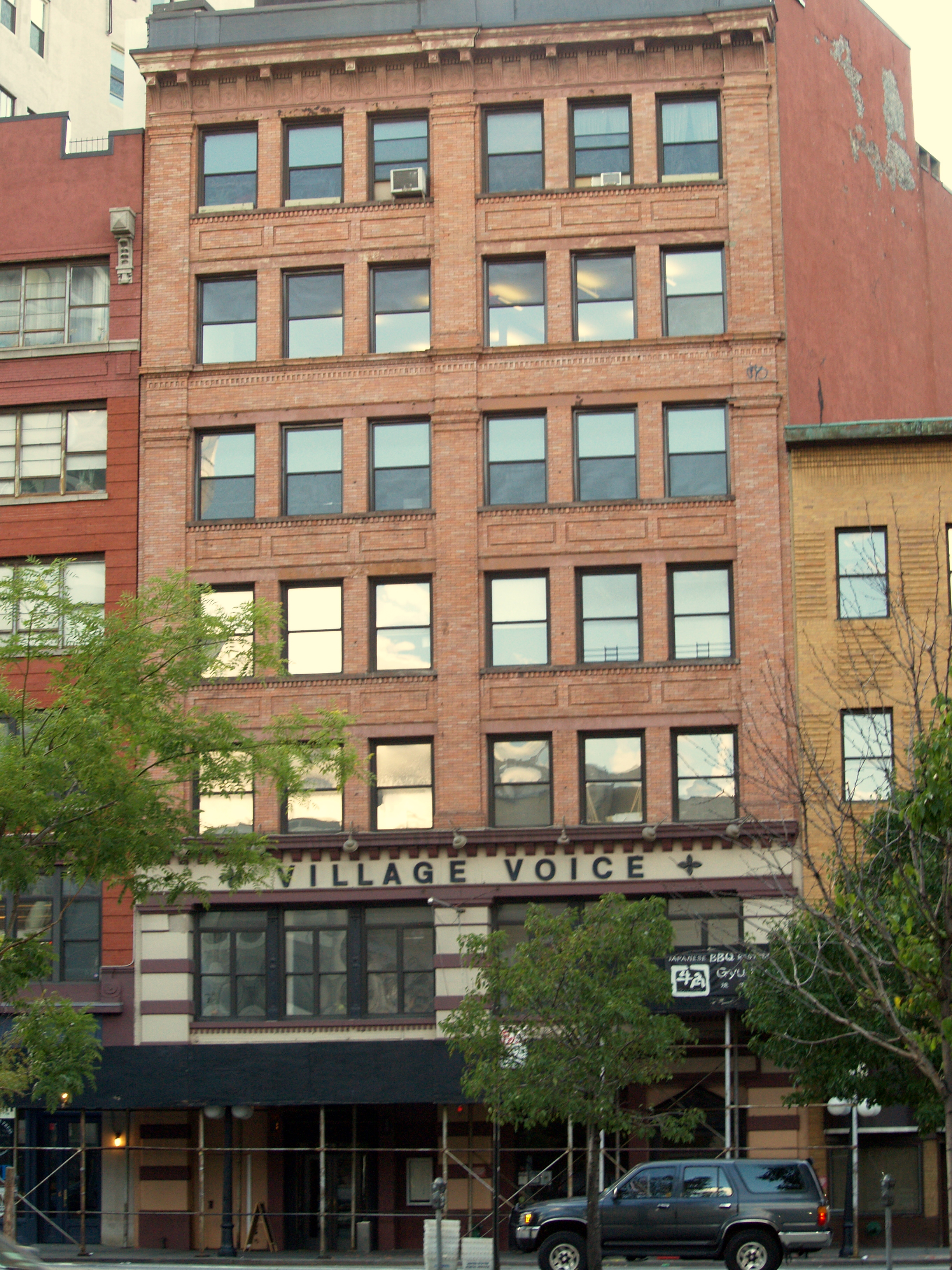 The East Village, New York headquarters of The Village Voice, at 36 Cooper Square.